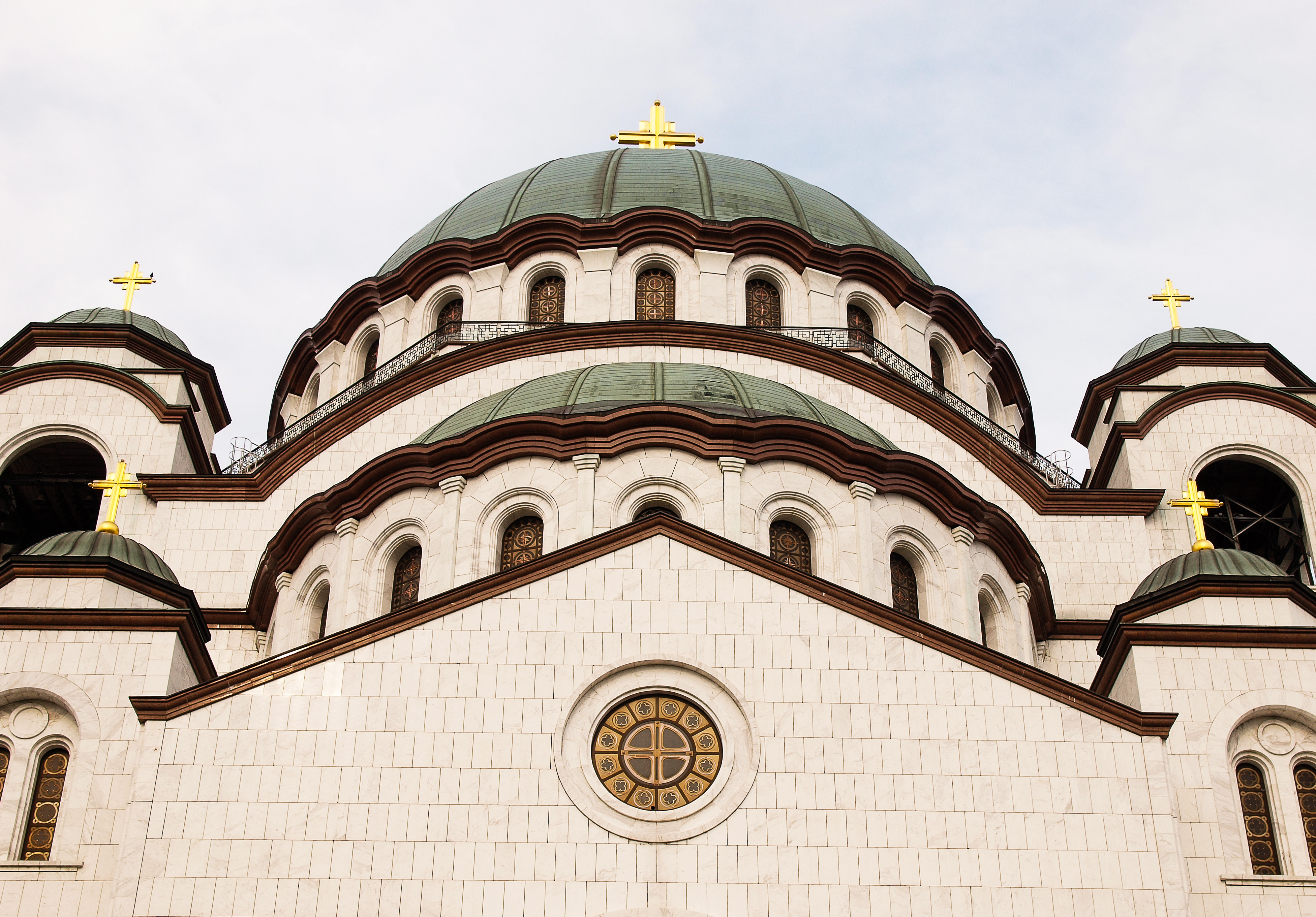 Cupola Hram Svetog Save